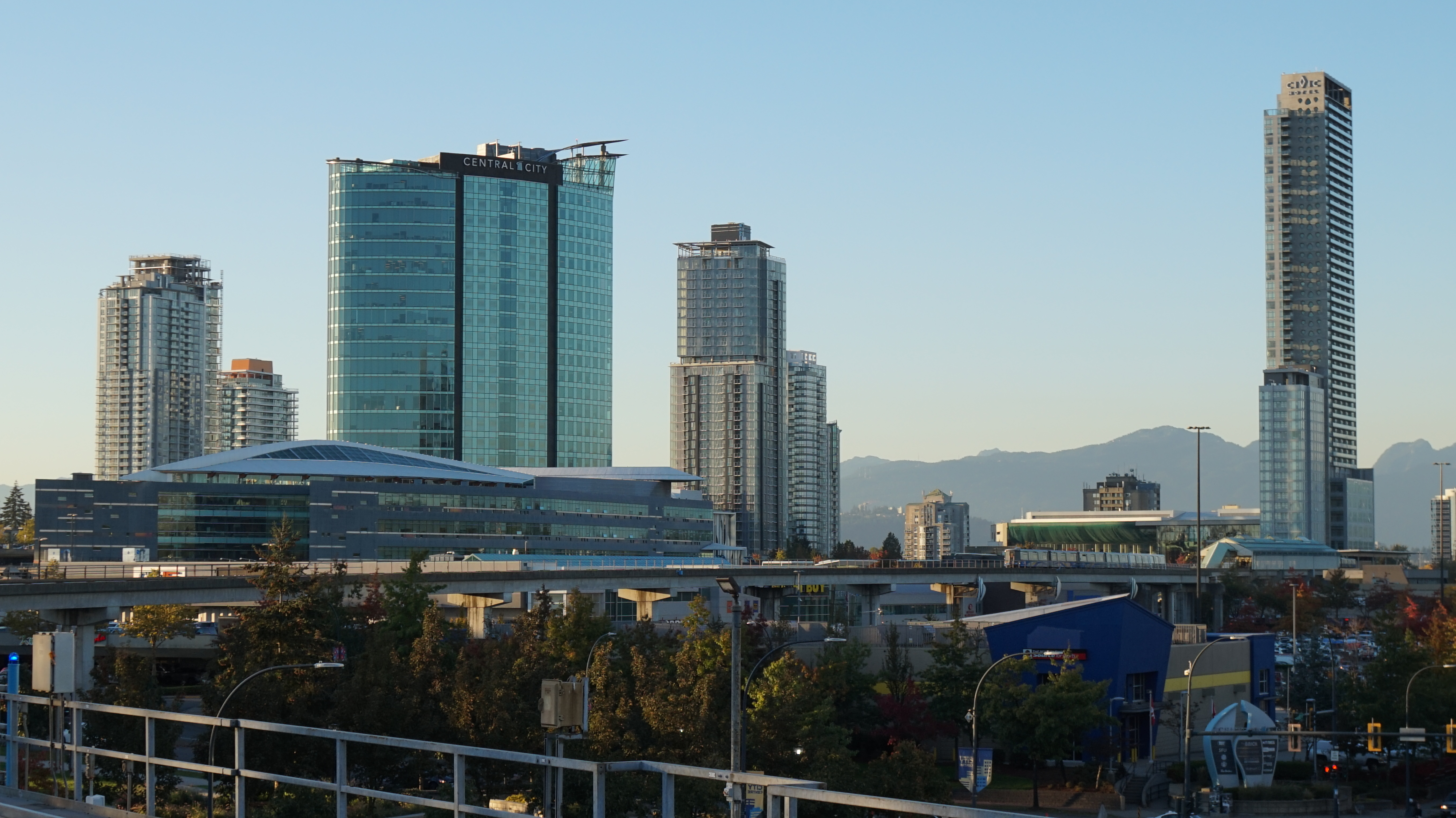 King George Hub District, Surrey 2018